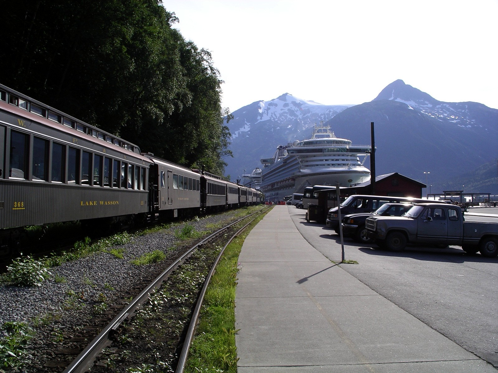 Just arriving from Carcross Yukon